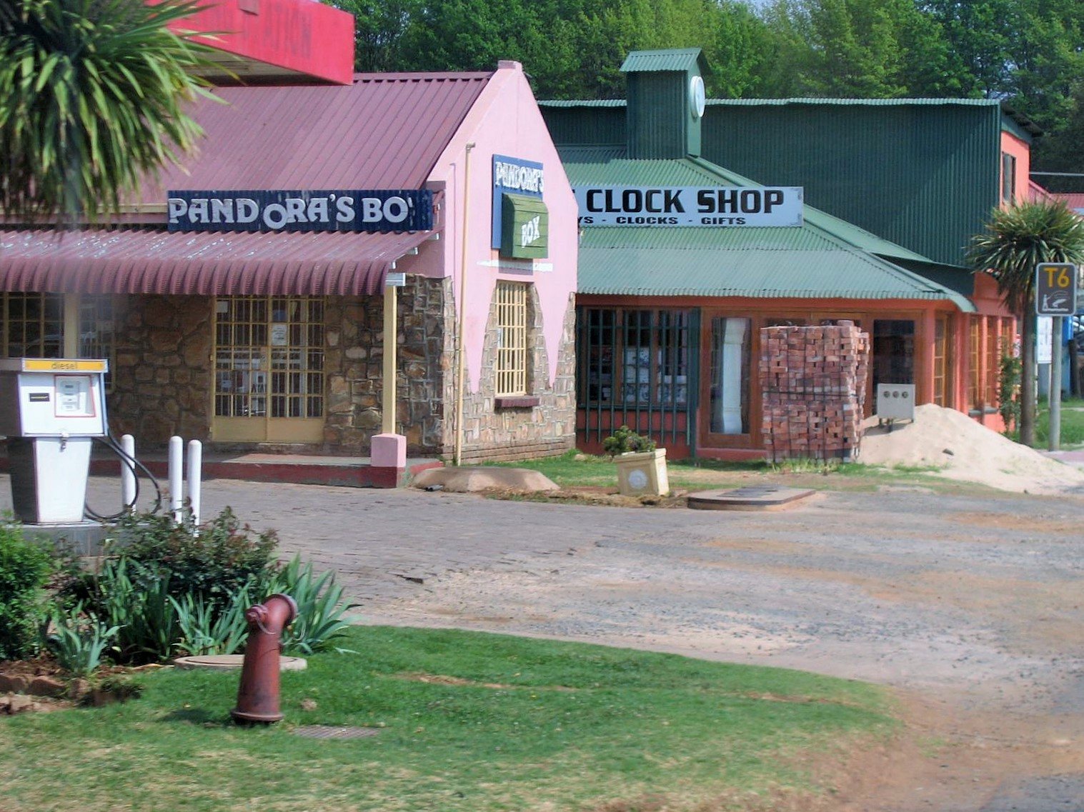 Graskop, magasins dans la rue principale This media shows a South African Protected Site with SAHRA file reference 24° 55' 34.66" S 30° 50' 38.82" E.